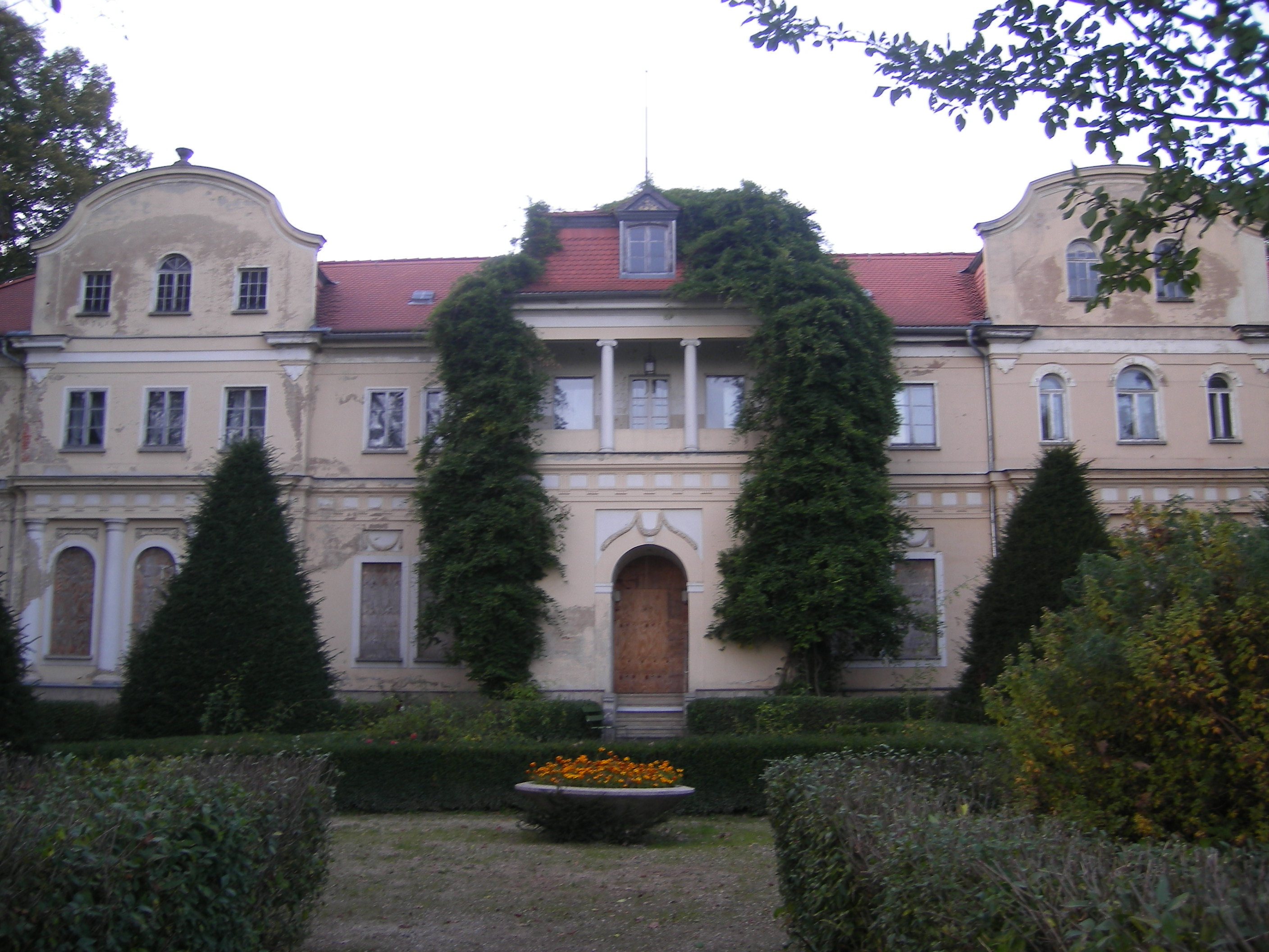 Castle in the park of Tannenfeld, part of municipality Löbichau, in thuringian district Altenburger Land near Gera, Bundesstraße 7 and Bundesautobahn 4